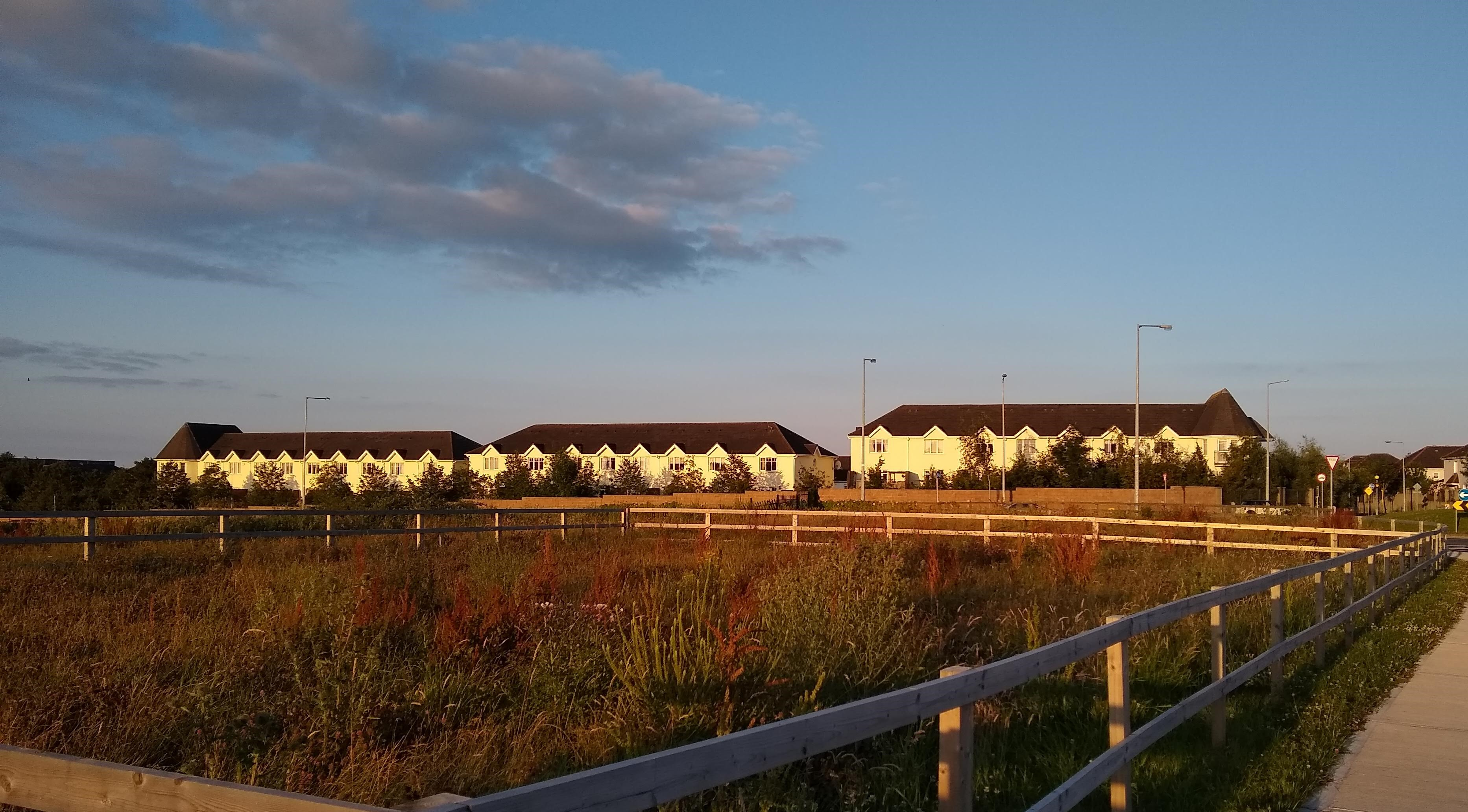 Holywell, Swords, late evening